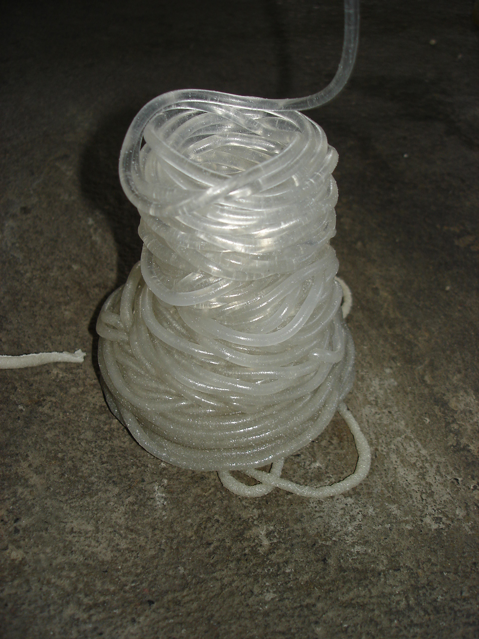 An extruded polymer rope